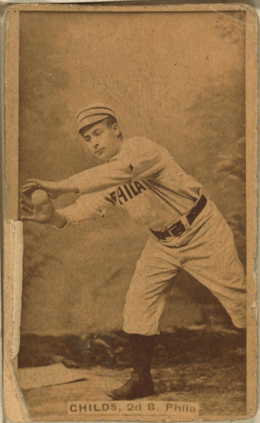 Baseball card of Clarence Algernon "Cupid" Childs